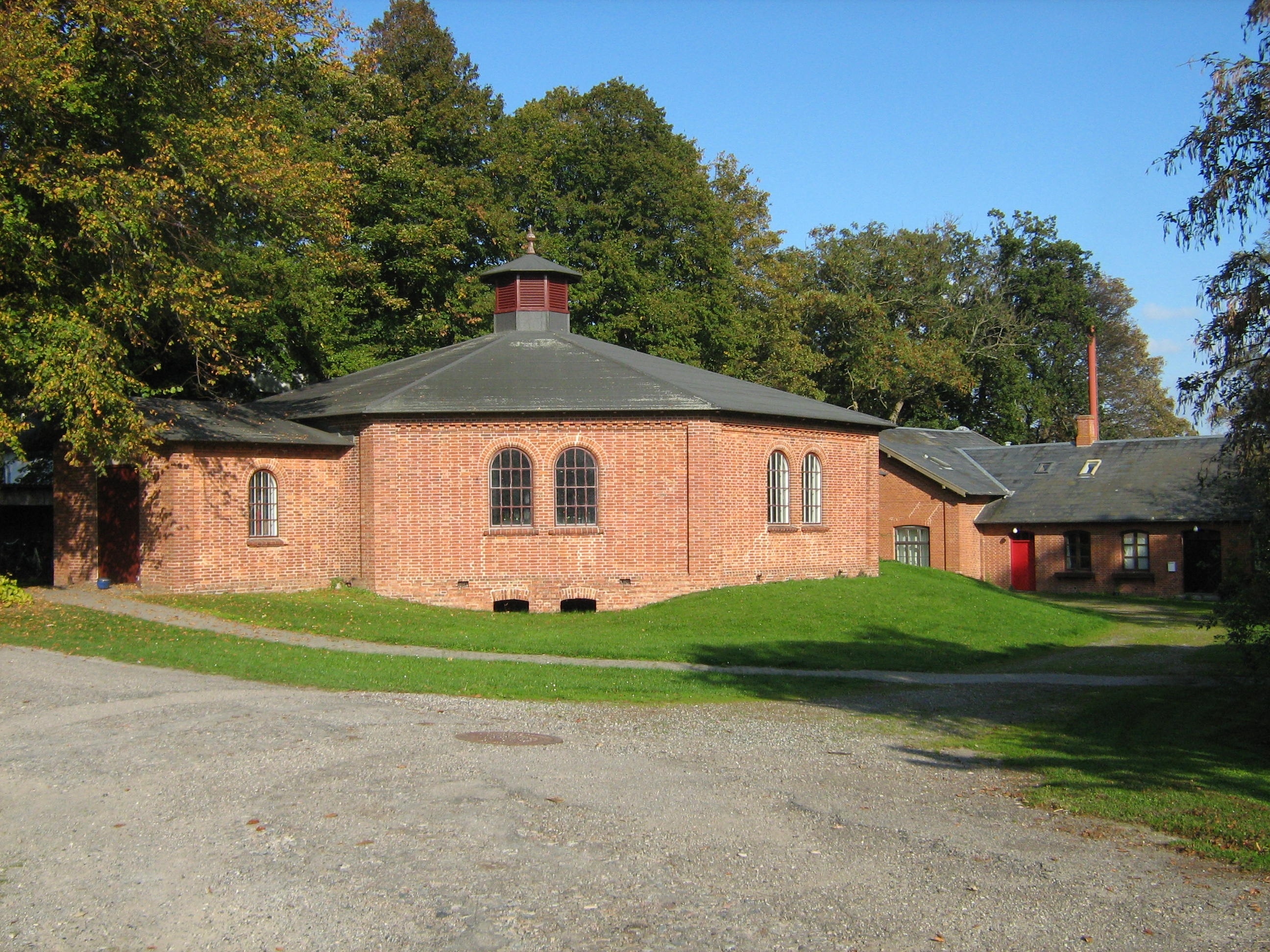 Rødkilde Højskole, Møn, Denmark. The octagonal assembly hall or forsamlingshus from 1868.